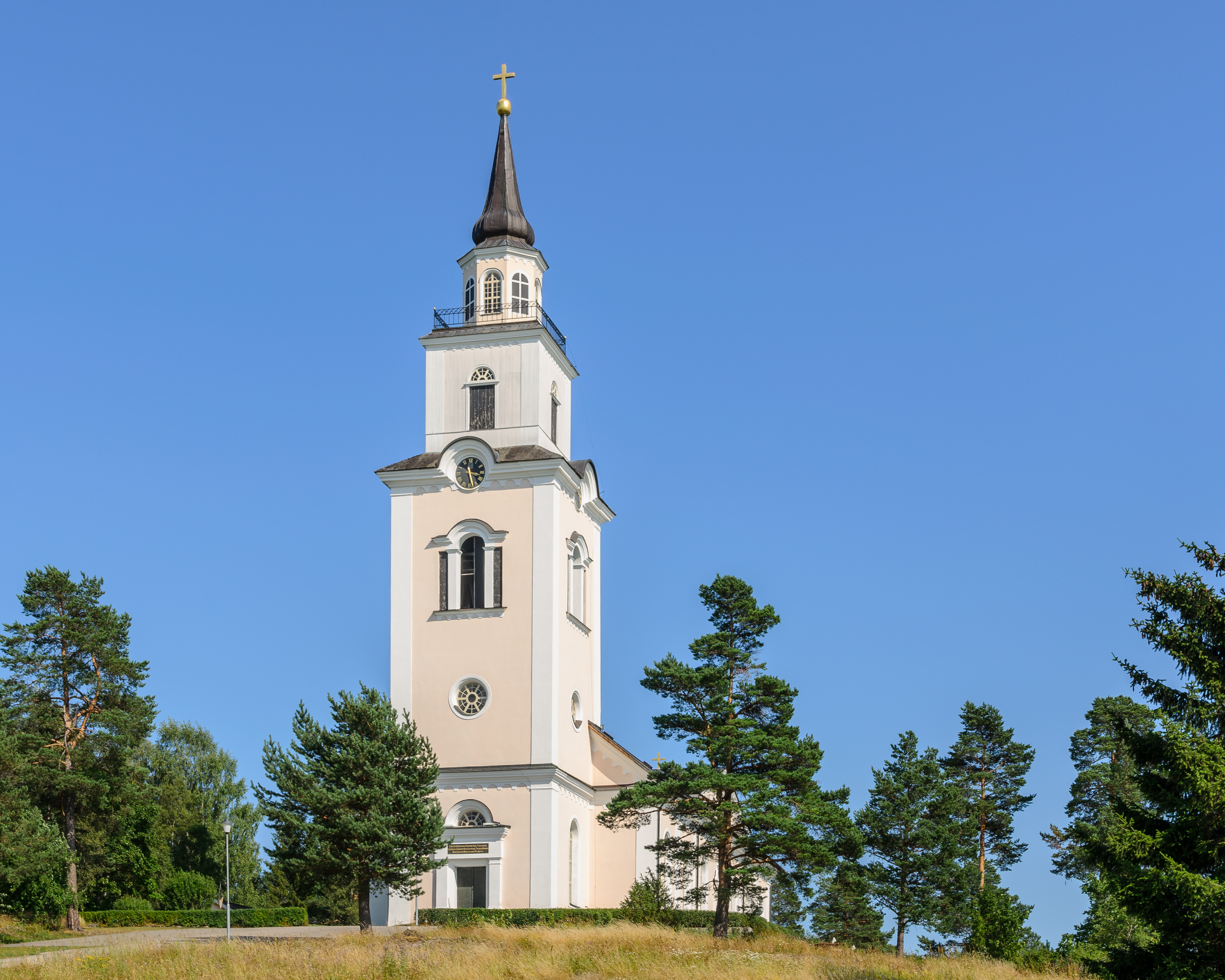 Rogsta church outside Hudiksvall. Church of Sweden, Diocese of Uppsala, Hudikvallsbyggden Parish.